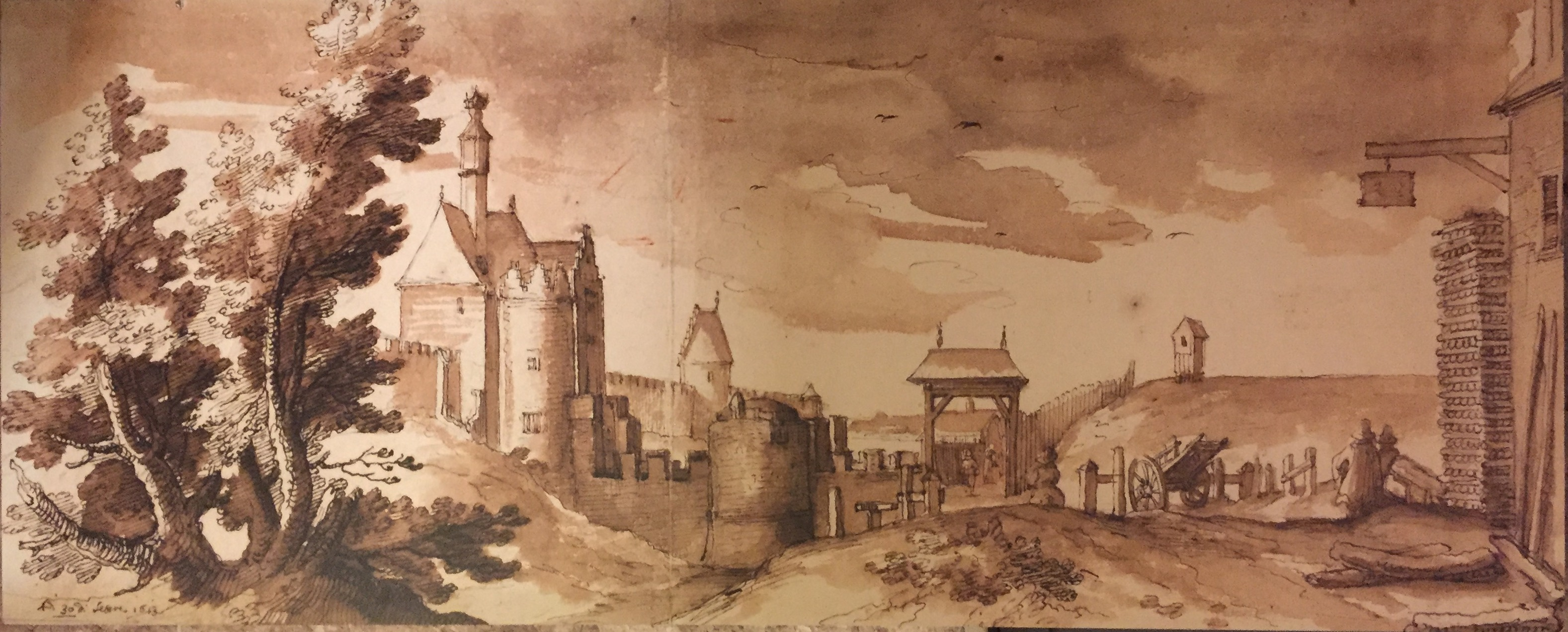 Brussels landscape by Remigio Cantagallina, ca. 1612. The Namur Gate can be seen.